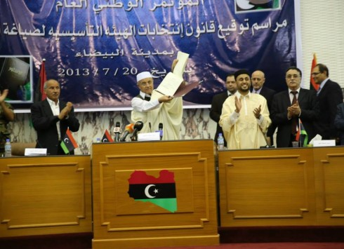 Nouri Abusahmain signed the Law of the constituent body for the drafting of the constitution in Bayda, Libyan